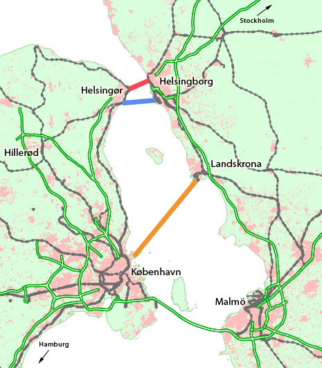 Three proposals for a second Öresund link, marked in red, blue and orange, as of 2017.